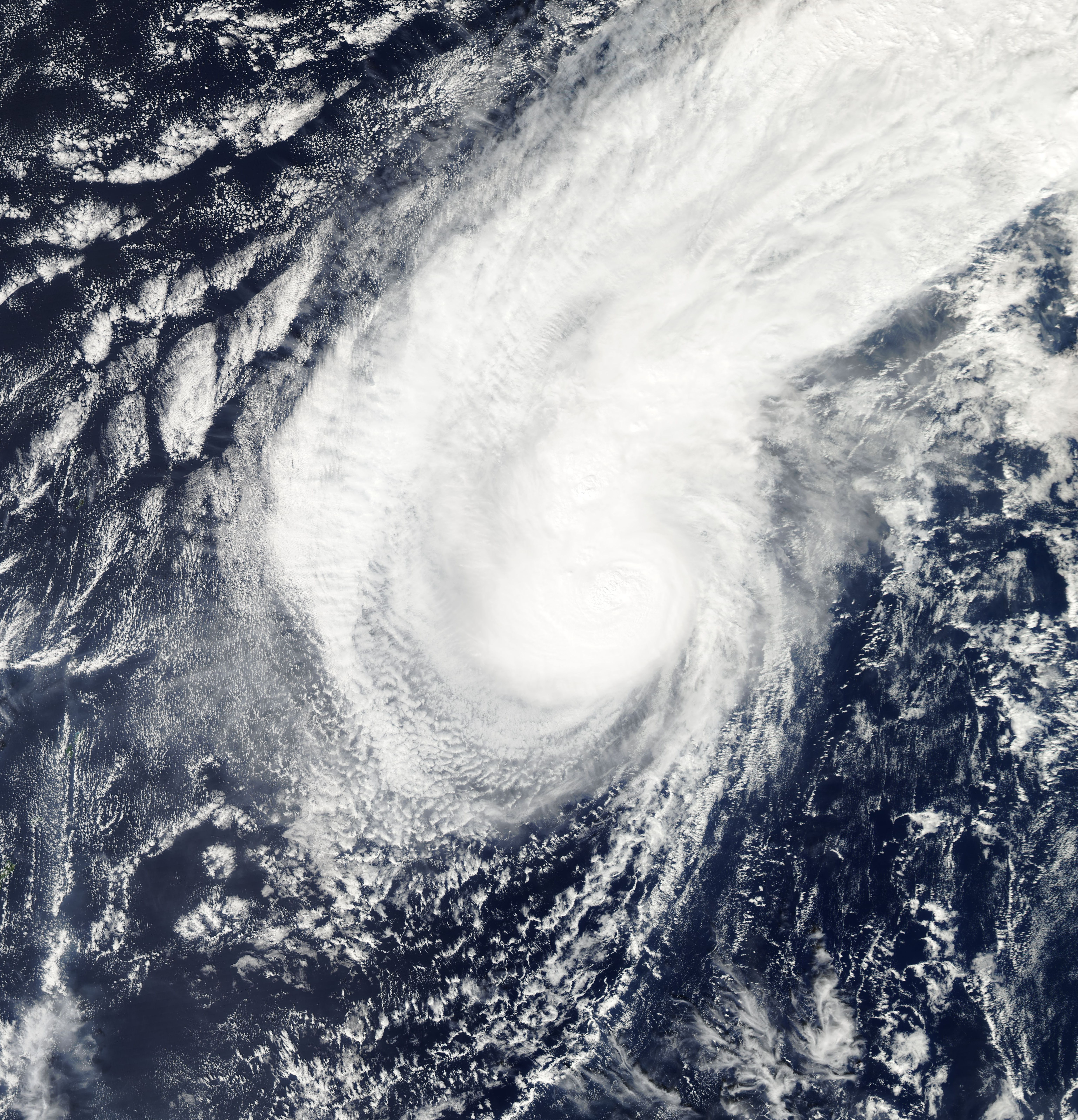 This image shows Severe Tropical Storm Kulap in the Pacific Ocean at 0325 UTC on January 18, 2005. The storm's sustained wind speeds were about 50 knots (10-min average) and the pressure was approximately 985 mb.